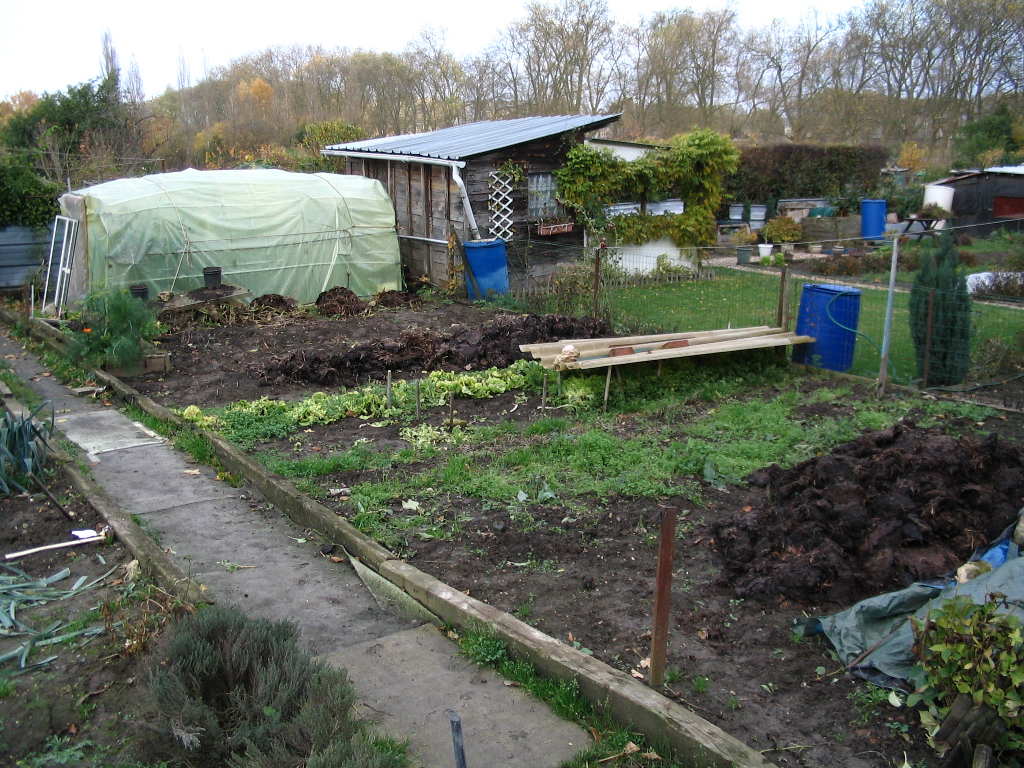 Allotments in Versailles, France.